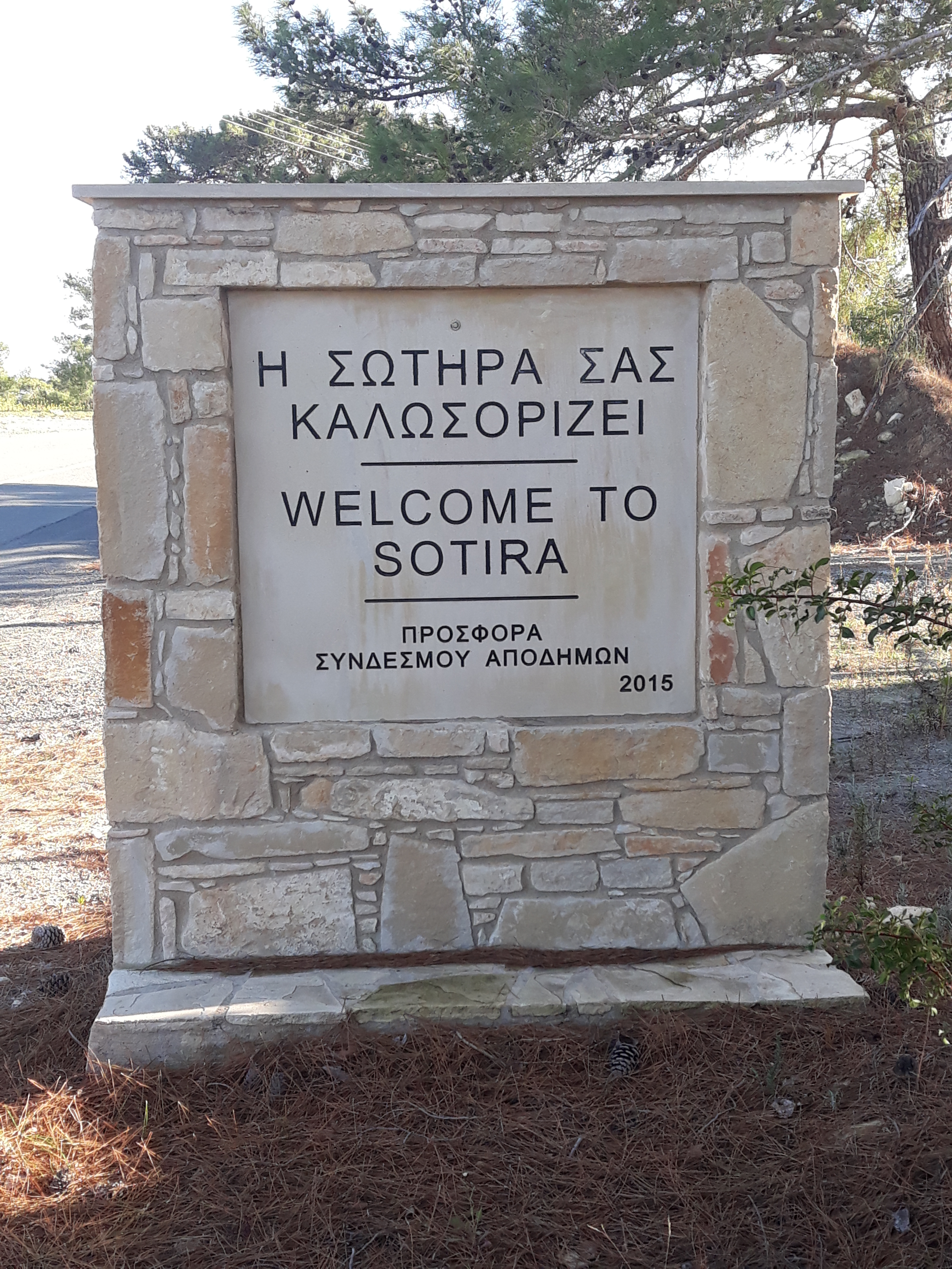 Sotira, Limassol Welcome Road Sign.